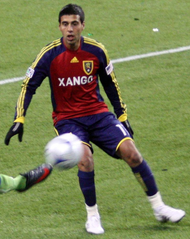 Tony Beltran of Real Salt Lake defends against Sebastian Le Toux of Seattle Sounders. This file has been extracted from another file: Tony Beltran vs Sebastian Le Toux.jpg